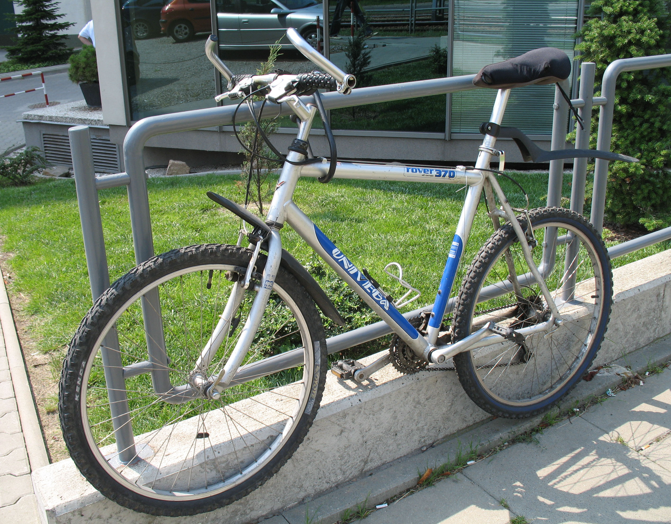 Univega Rover 370 bicycle in Kraków, Poland.